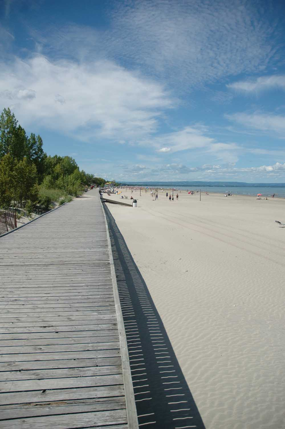 Wasaga Beach, part of Wasaga Beach Provincial Park.